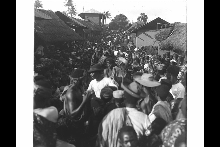 Yamsfest